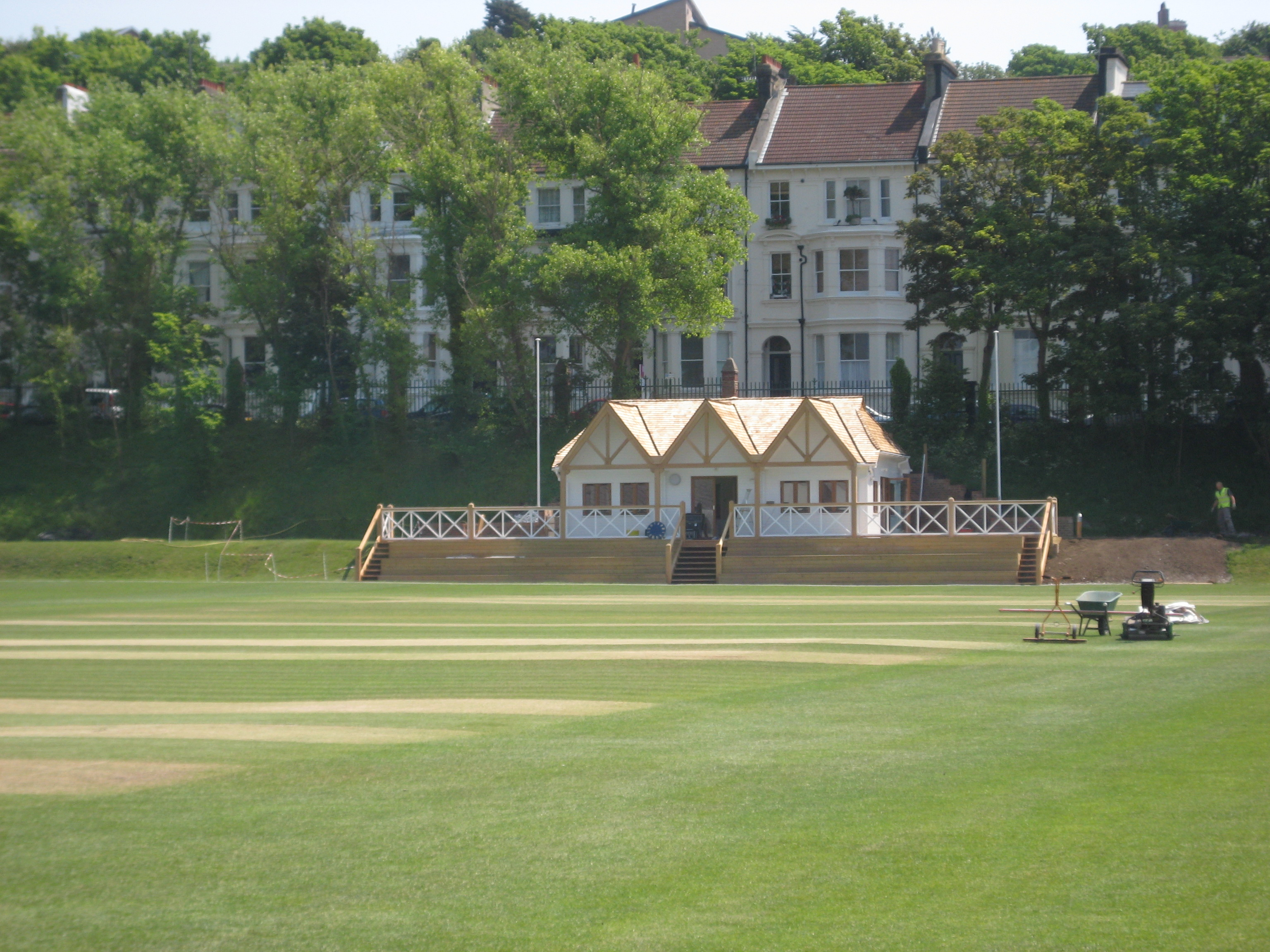 Brighton College Cricket Pavilion